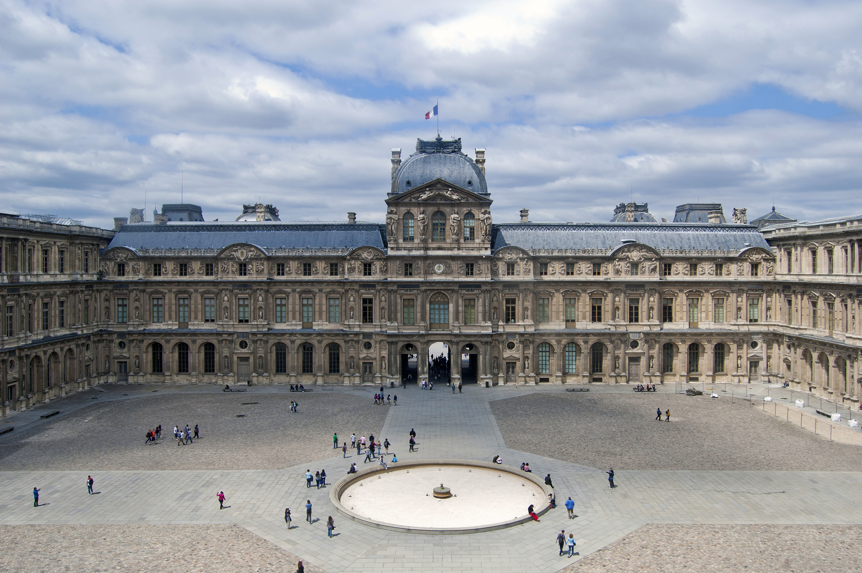 West wing of the Cour Carrée of the Louvre.